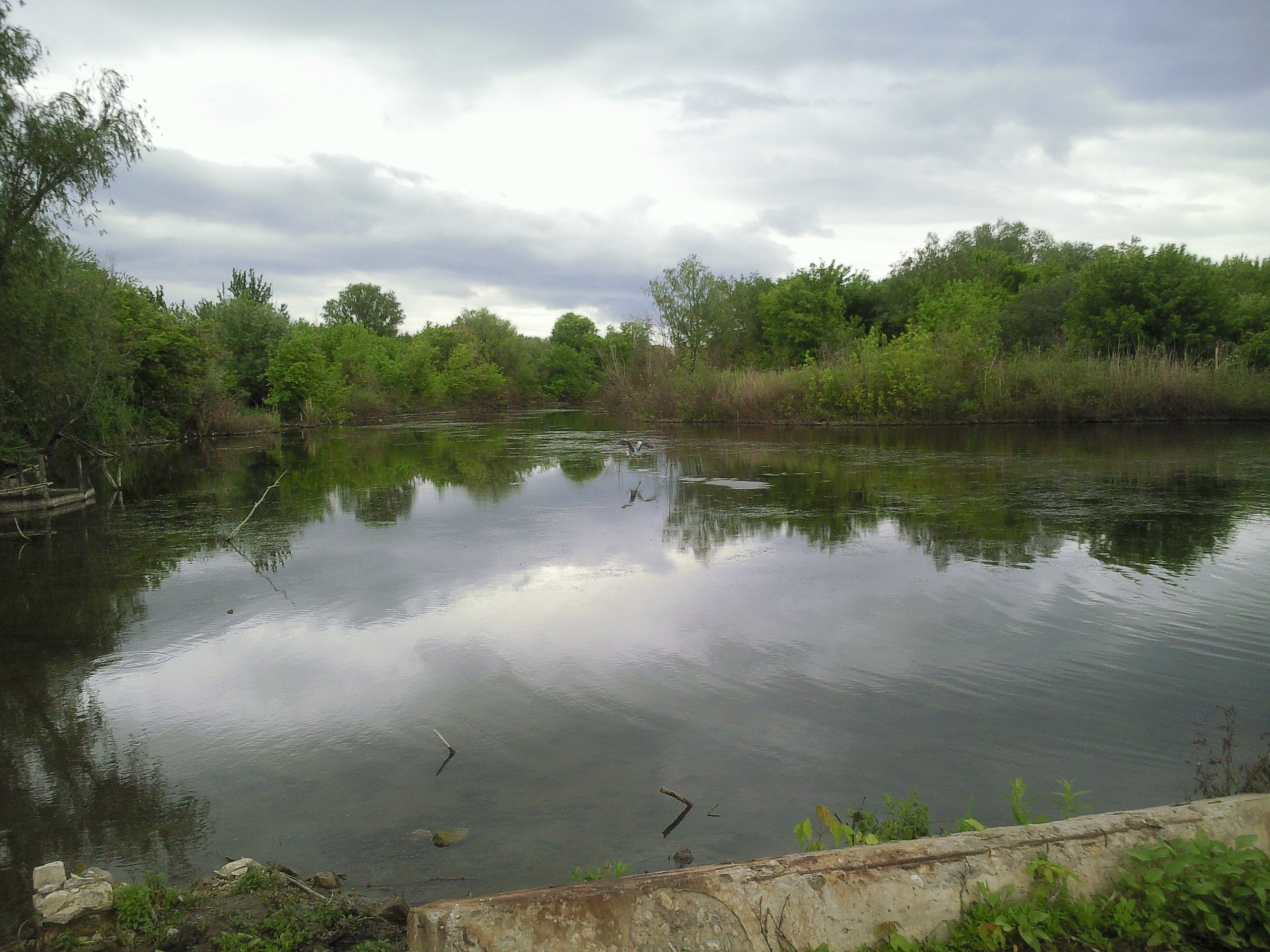 Участок реки Аксенец протекающая через хутор Тормосин.